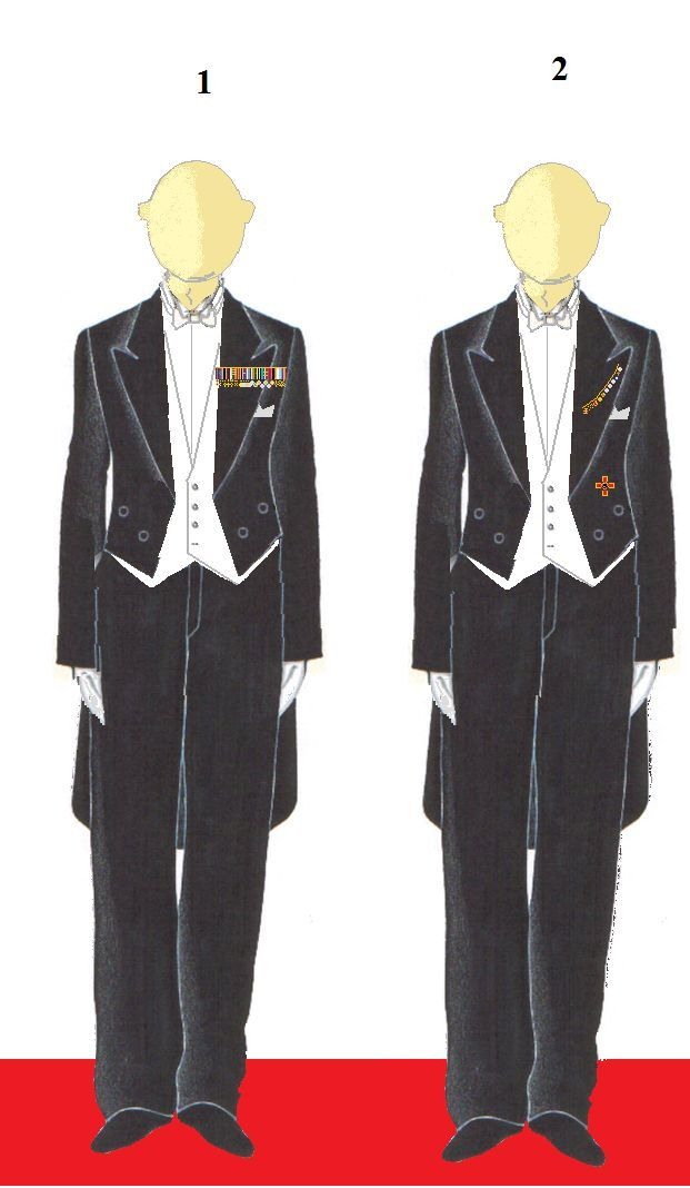 Two gentlemen in White Tie